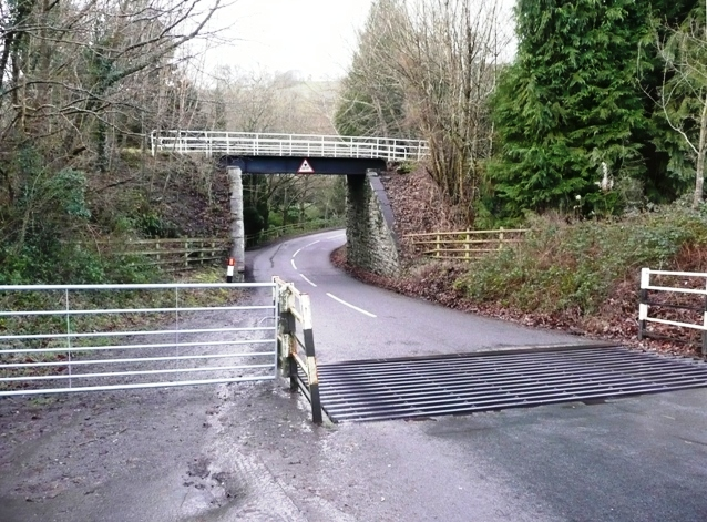 Former railway line, Erwood This is the railway bridge of the Boughrood to Builth Wells railway line, closed in 1963. This section of the route has been converted into a road; it seems odd to see cars going over here. The road beneath leads to Erwood bridge over the River Wye.